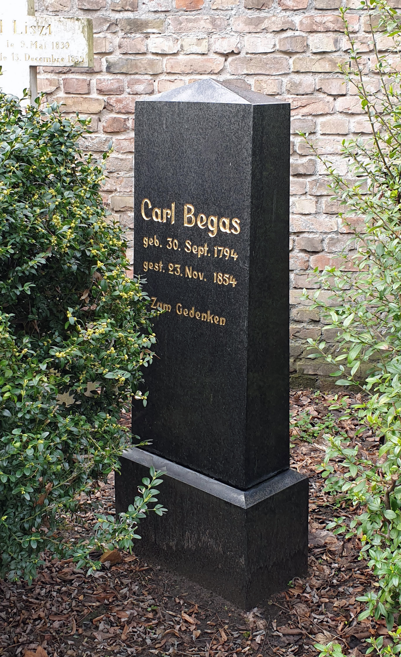 Grave, Carl Joseph Begas, Liesenstraße 8, Berlin-Mitte, Germany